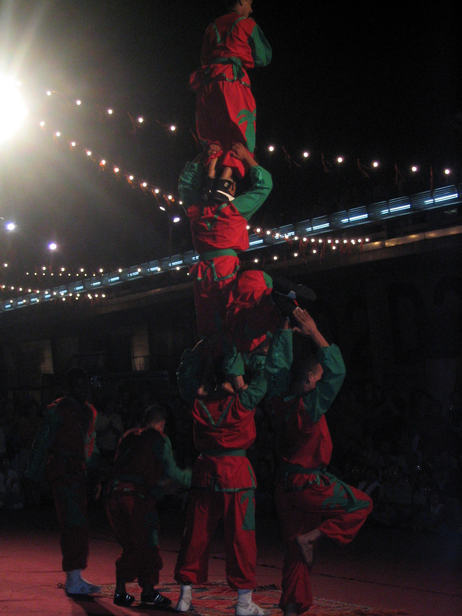 2004 Universal Forum of Cultures. Acrobats from Oulad Sidi Hmad ou Moussa (Morocco)